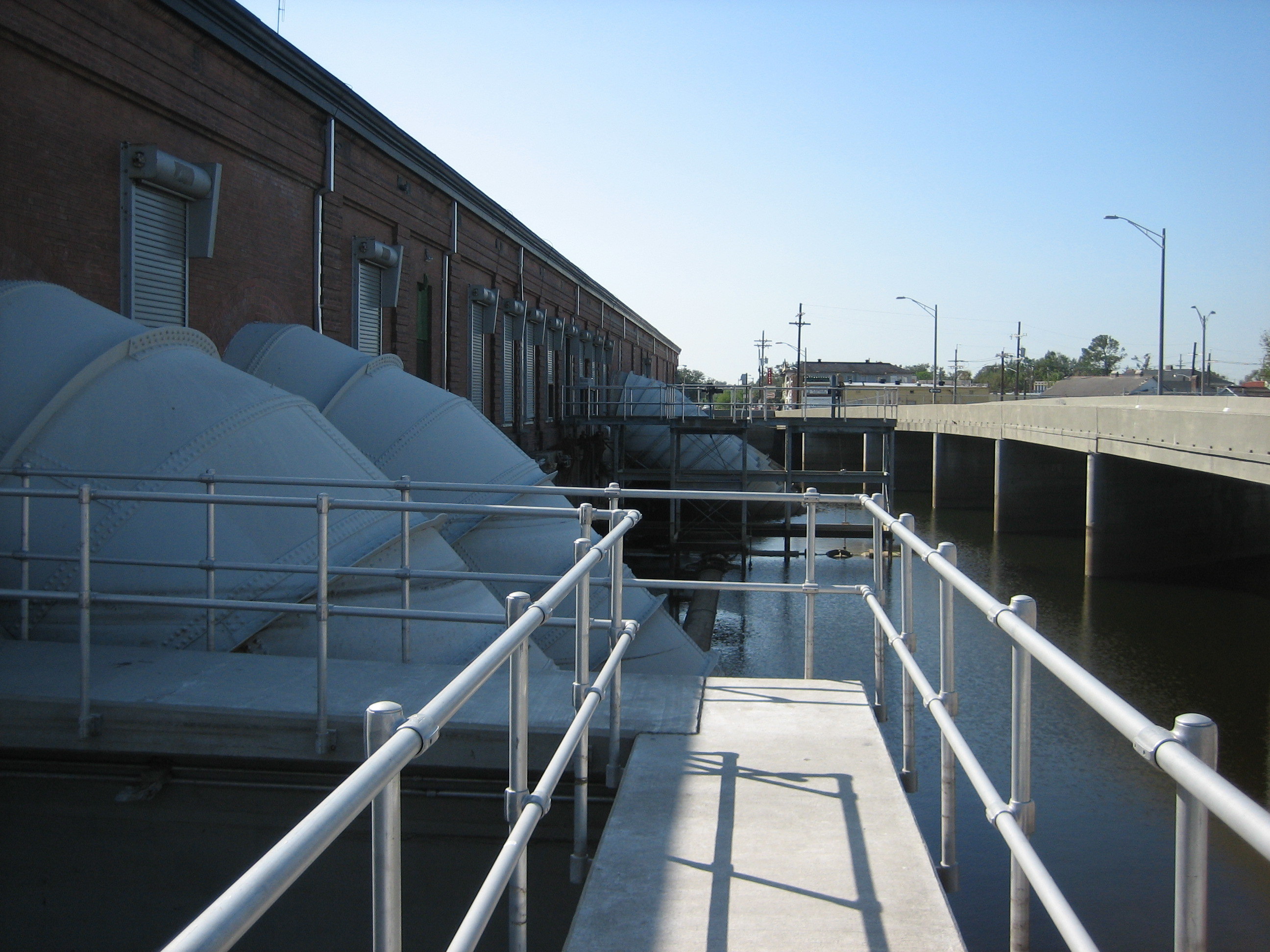 New Orleans: Catch basin and pipes, Melpomene Street Pumping Station, aka Pumping Station 1, of New Orleans Sewerage & Water Board; part of system used to drain the city.